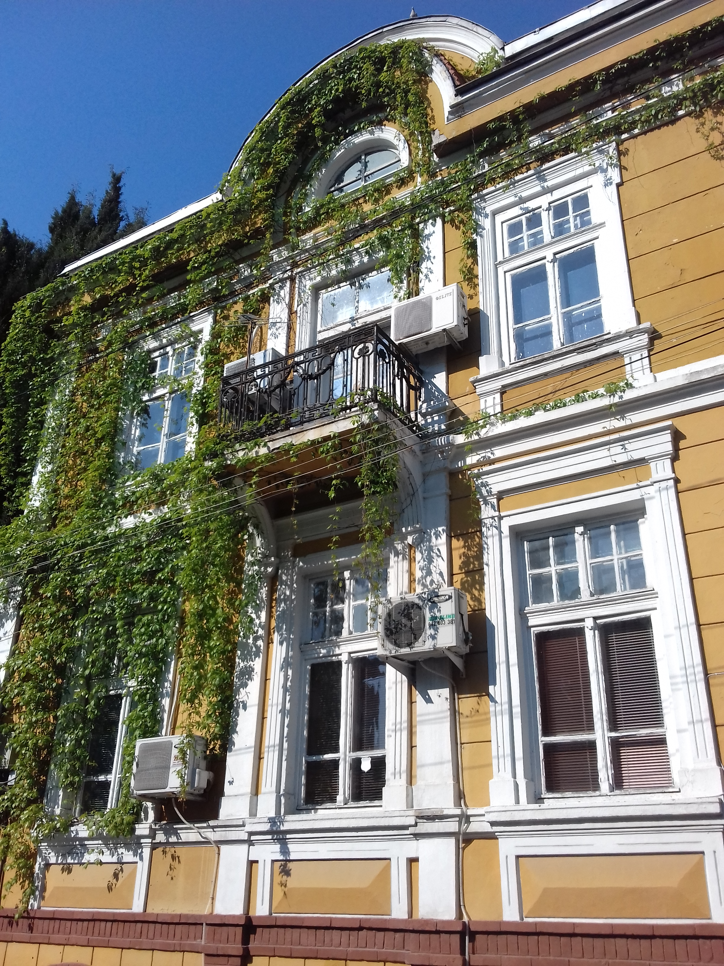 Hanchevi House in Stara Zagora, Bulgaria